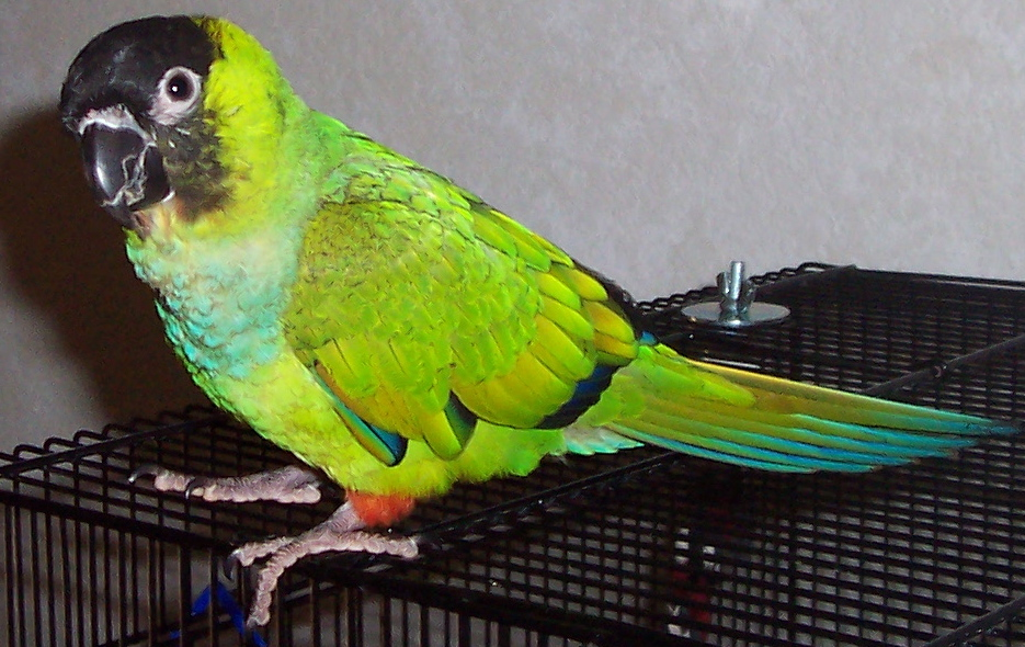 A pet Nanday Conure, named Jack.